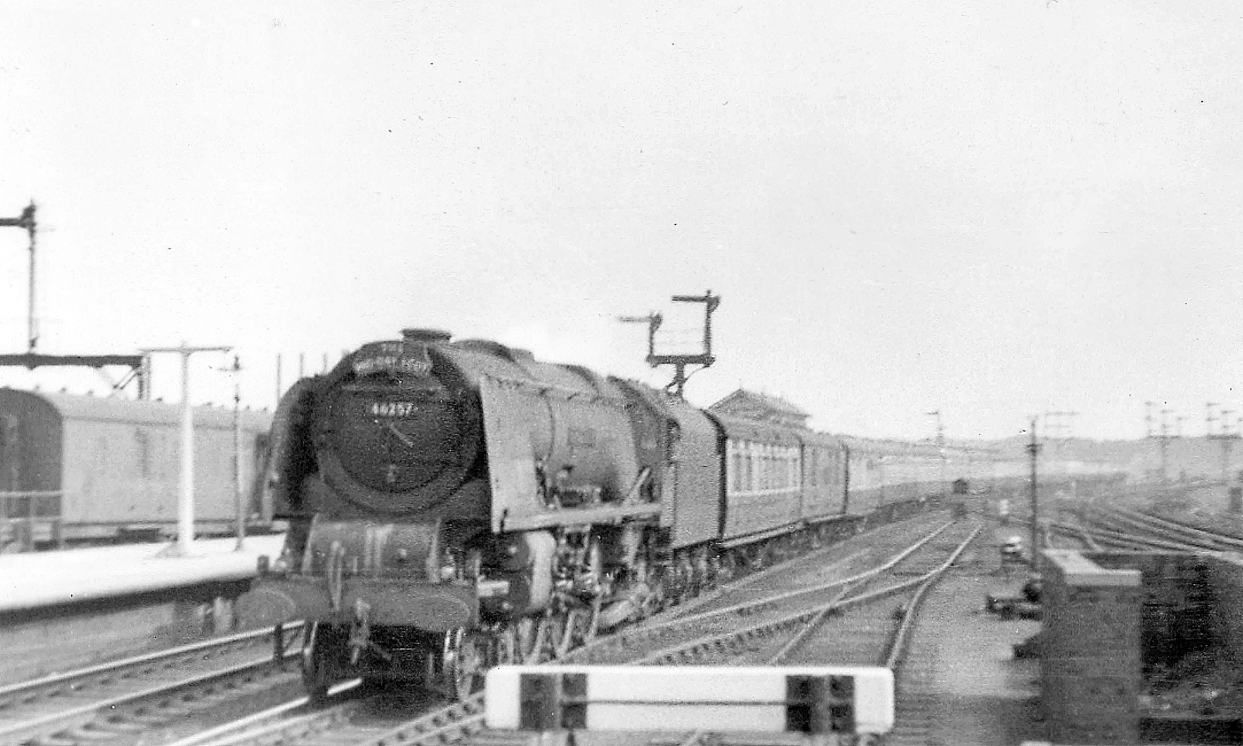 'Midday Scot' passing Warrington Bank Quay, 1954. View southward, with a very long train coming down off the Mersey Viaduct. The locomotive is Stanier/Ivatt Princess-Coronation Class 8P 4-6-2 No. 46257 'City of Salford', the last of this great class built (5/48, withdrawn 10/64).